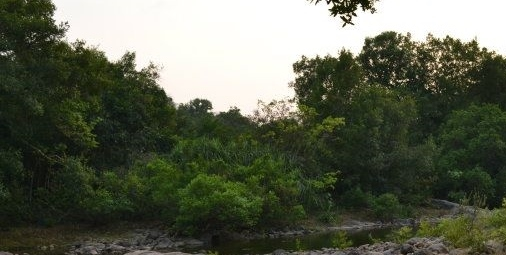 ತೊಂಬಟ್ಟು nature